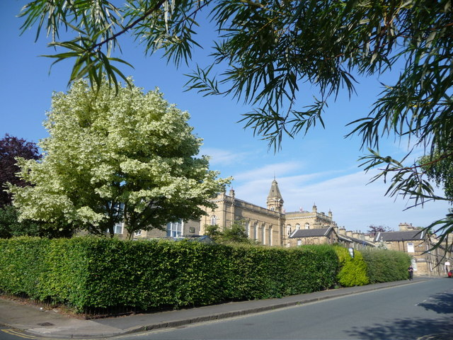 Shipley College & Victoria Hall, Saltaire Taken from Caroline Street at the junction with Maddocks Street